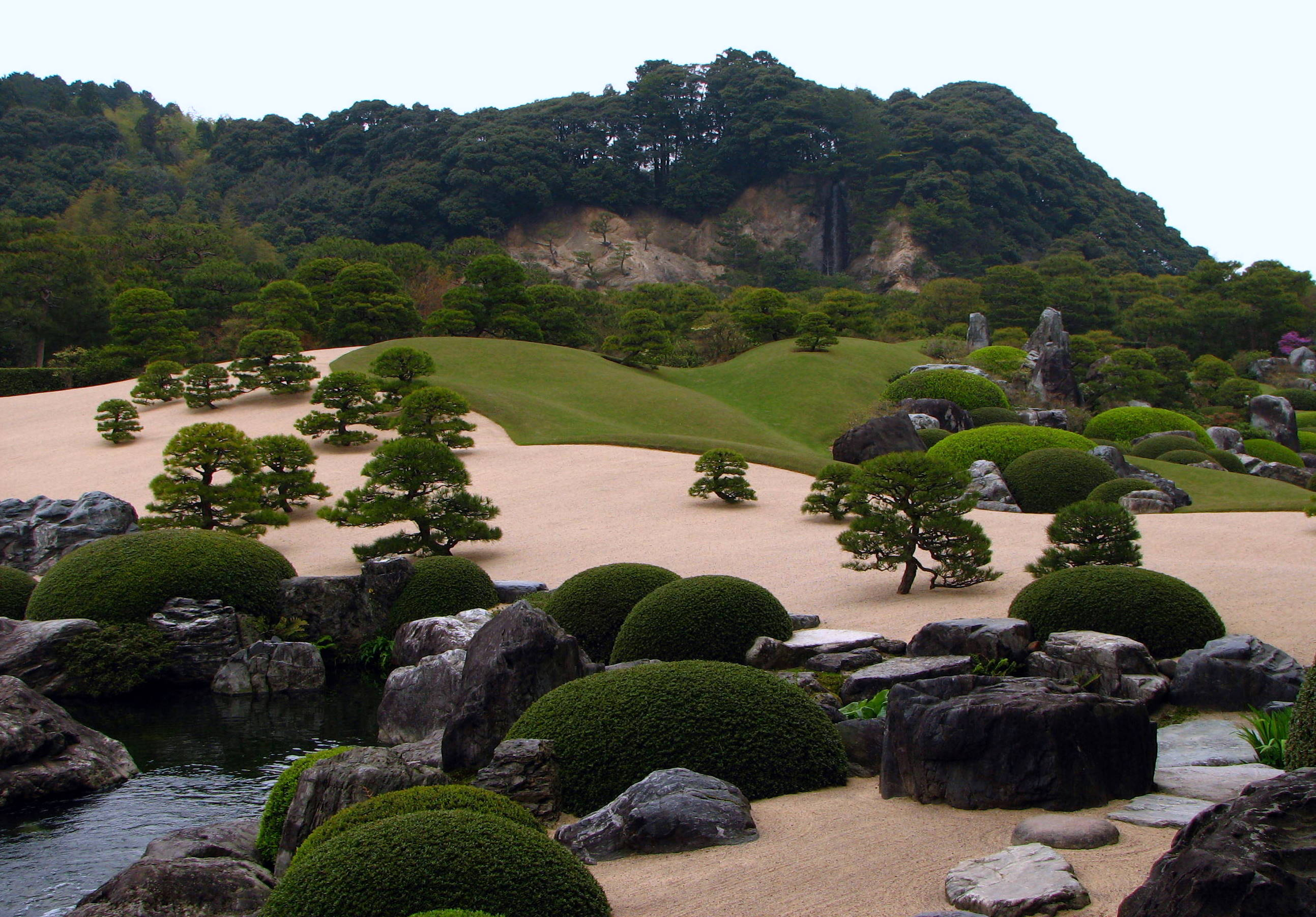 Adachi Museum of Art Garden, Yasugi City, Shimane Prefecture, Japan